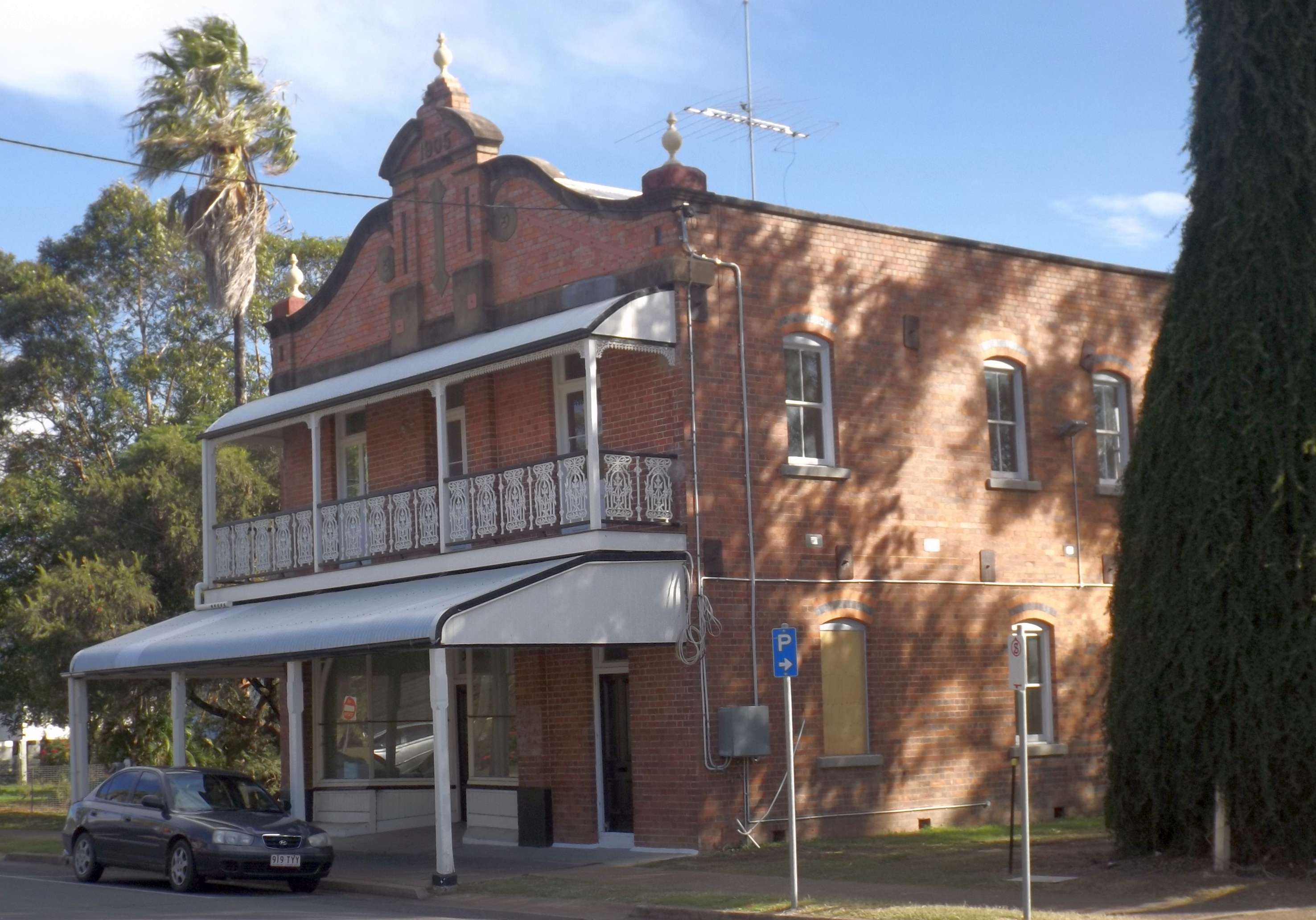 Photo of Whitehouse's Bakery at Laidley, Lockyer Creek Region, Queensland, Australia.